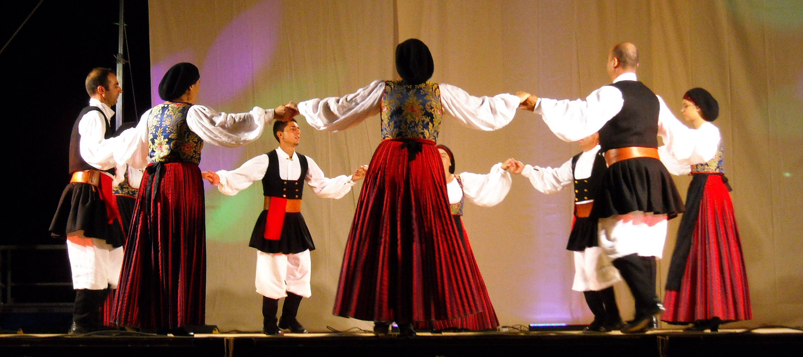 Ballu Tundu, Siliqua